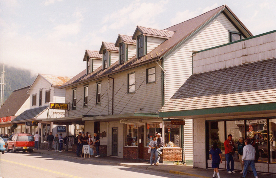 "A buildng from the Russian period on Lincoln Street. It was built before 1807."